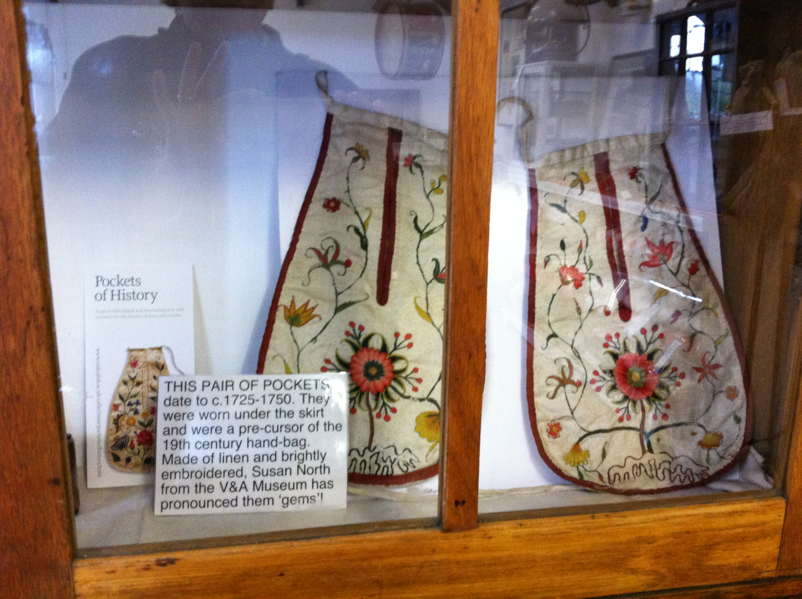 Pair of pockets (ca 1725 - 1750), linen with embroidery, to be worn under a dress, on display in the Swaledale Museum in Reeth, England